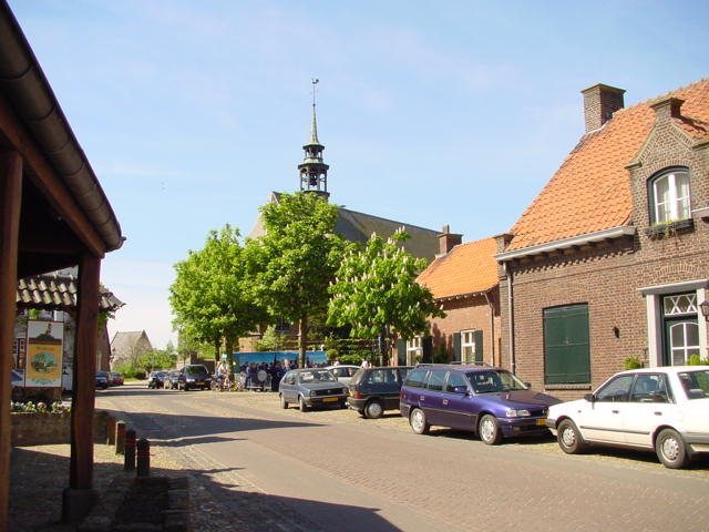 City centre Broekhuizen, Sint Nicolaaskerk, First Communion